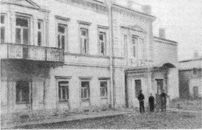 The building of the Moscow Committee of the RCP (b) in the Leontief lane of Moscow in the second half of 1910-ies